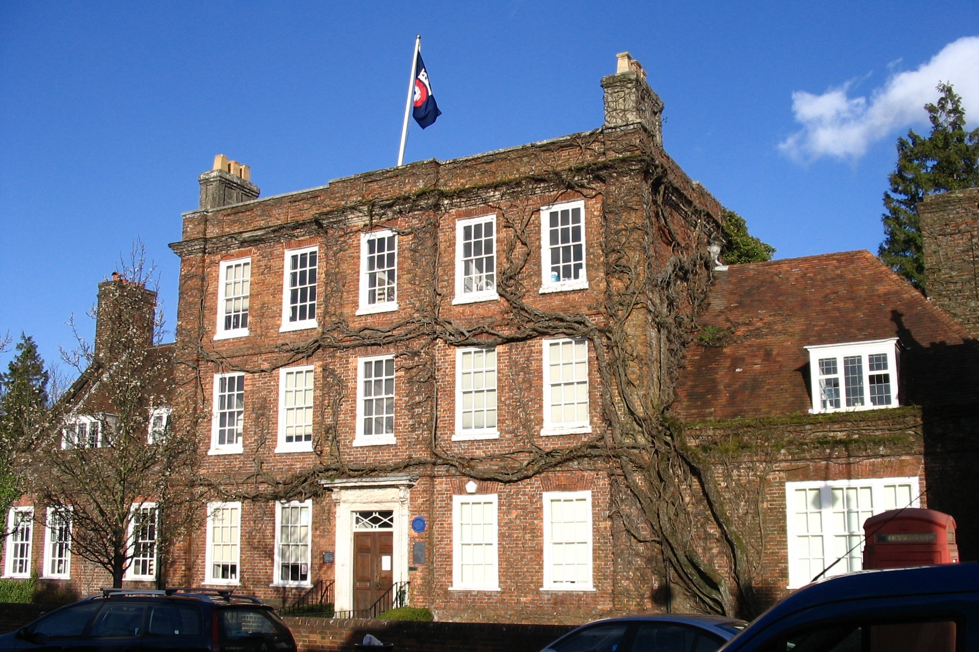 Churcher's College (original school), College St, Petersfield 2007 (Tony Holkham)